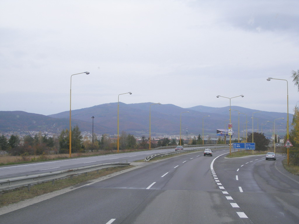 Priveidze - the junction of the Route 50 and 64 at the southern edge of the town